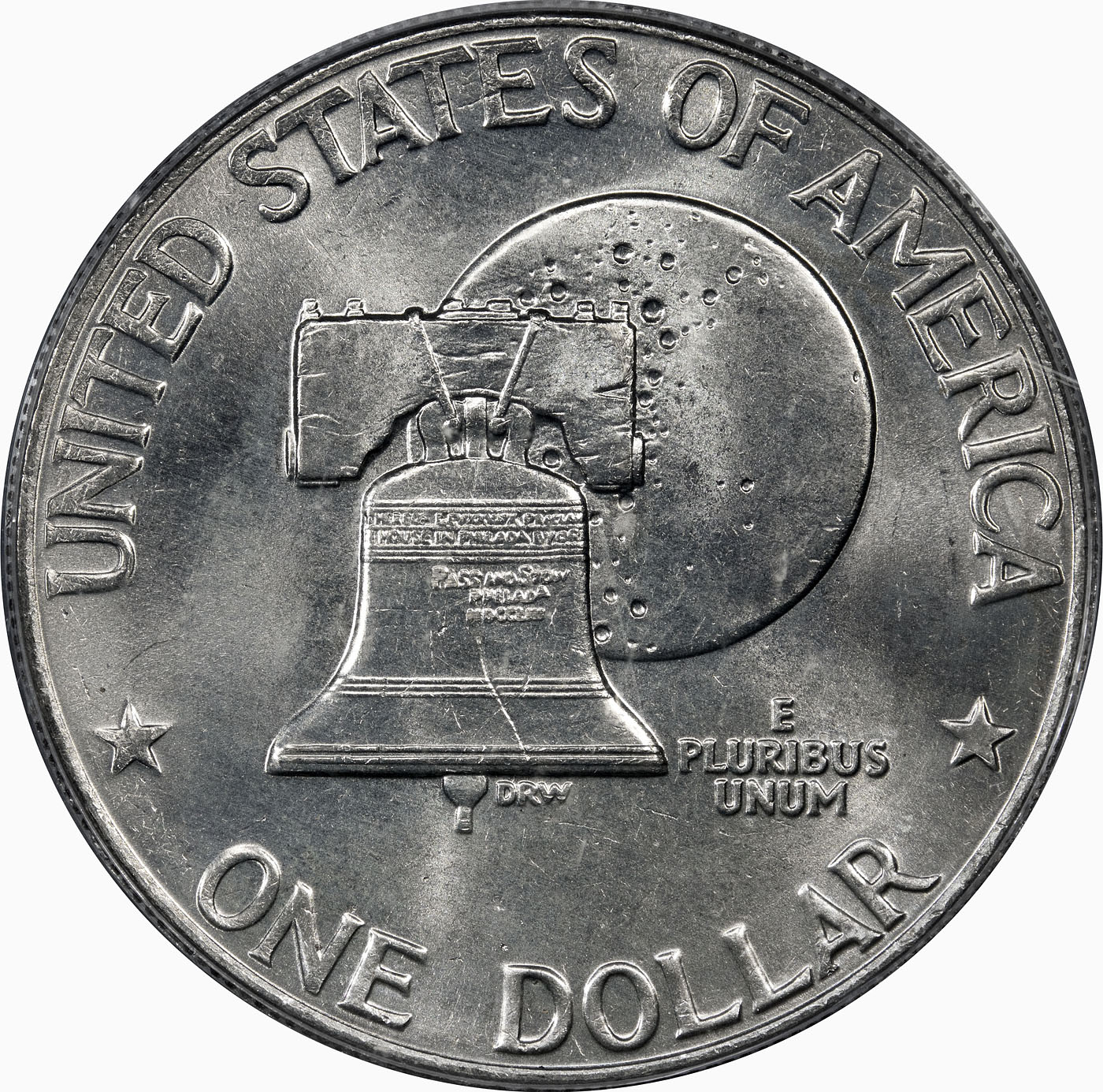 Eisenhower dollar bicentennial reverse type 2. Notice the thin serif sharp letters of the legend. This coin was minted in Denver and graded MS65 by PCGS.